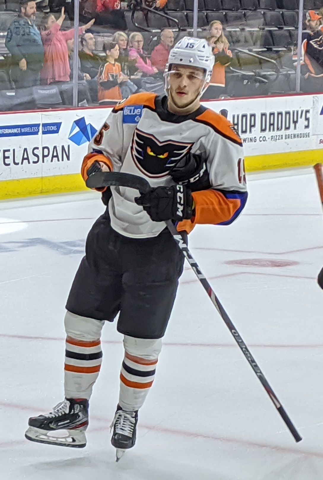 Maxim Sushko, a forward with the Lehigh Valley Phantoms ice hockey team, at the PPL Center in Allentown, Pennsylvania, on January 11, 2020.